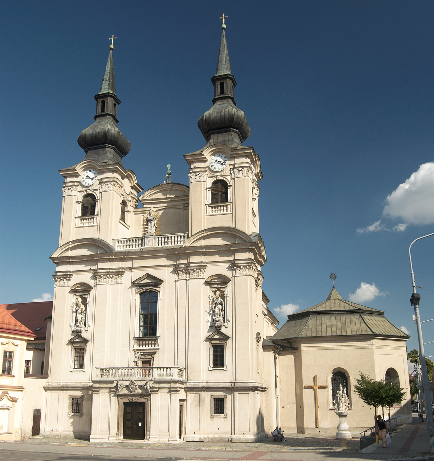 Brno-Zábrdovice - Assumption of the Virgin Mary Church